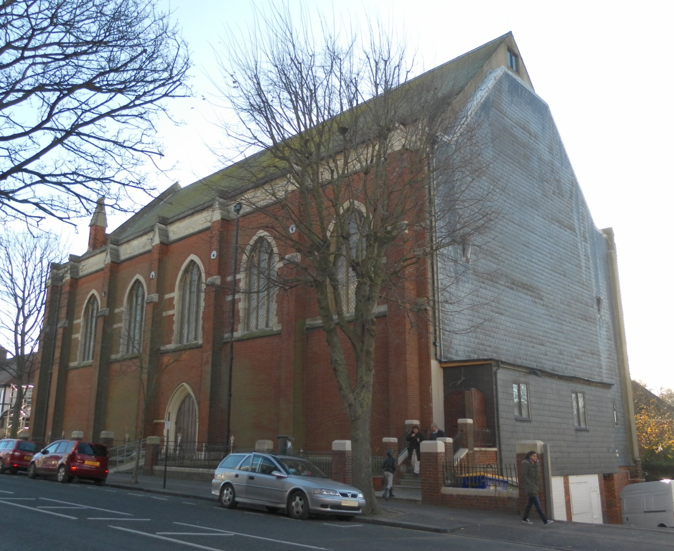 St Mary and St Abraam Coptic Orthodox Church, Davigdor Road, Hove, City of Brighton and Hove, England. Built in 1909–14 as an Anglican church (St Thomas the Apostle); declared redundant in 1993, then bought by the Coptic Orthodox Church of Alexandria. This view is of the rear, looking southeastwards.